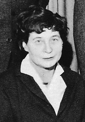 Finnish film critic